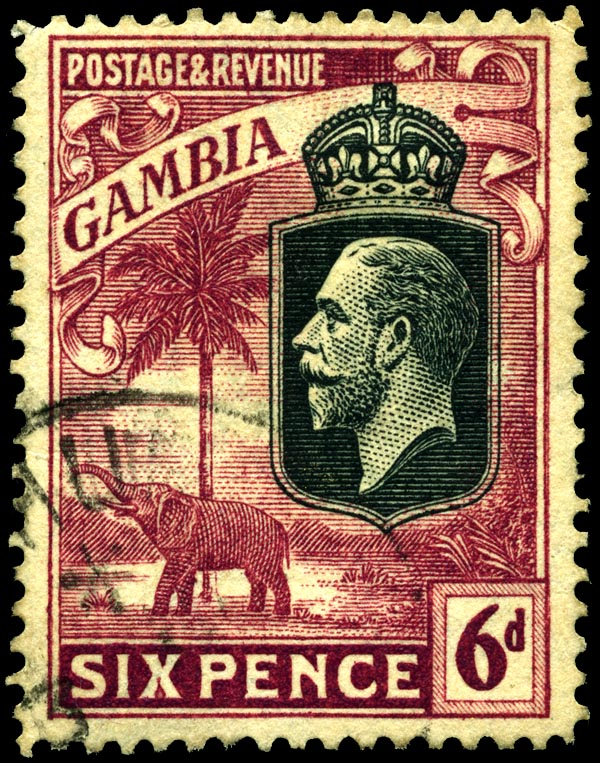 Gambia 6-pence stamp of 1922